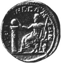 Image of Pythagoras from Nordisk familjebok at Project Runeberg.